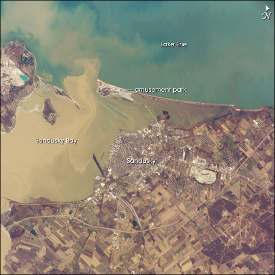 Astronaut photo of Sandusky, Ohio taken from the International Space Station.